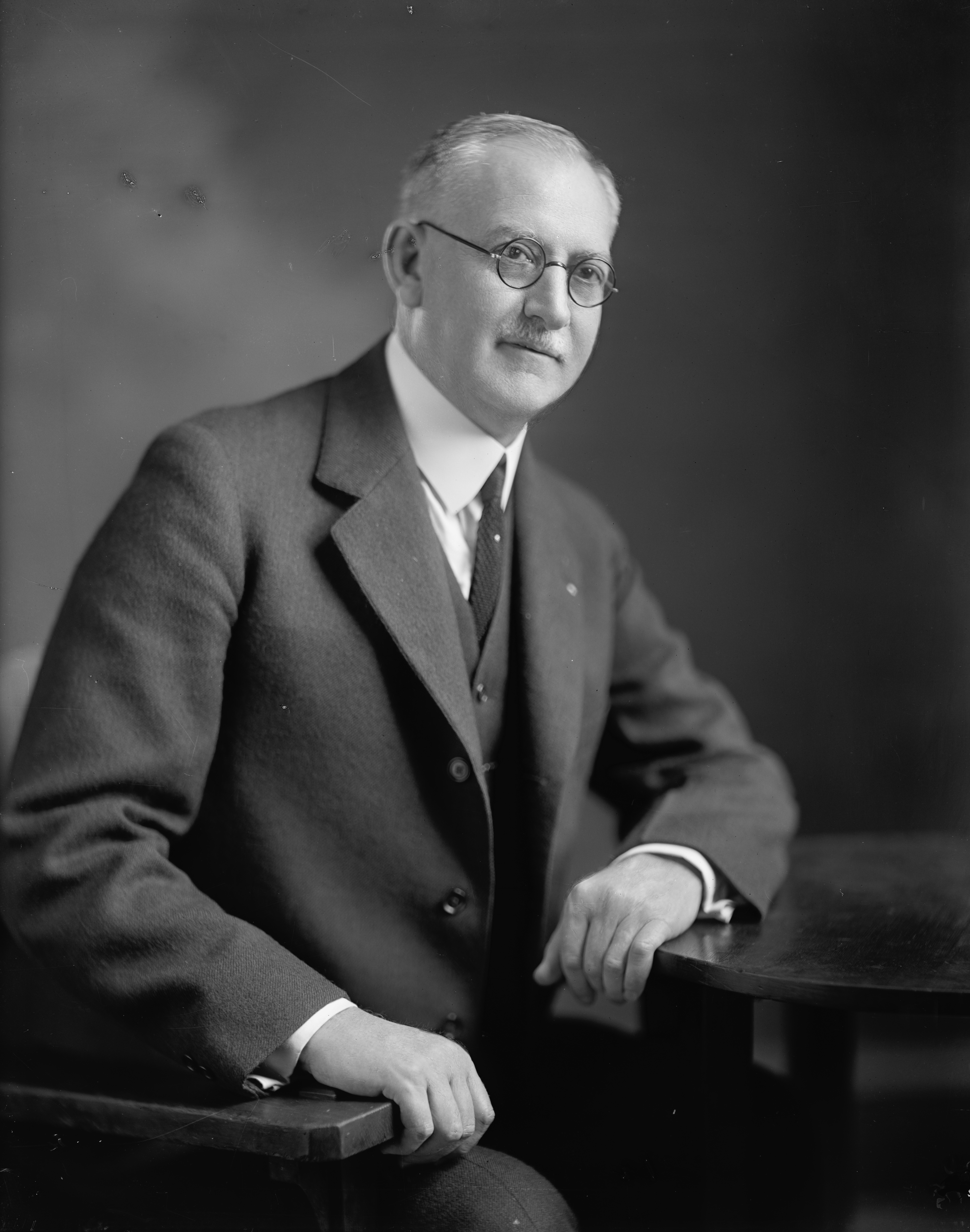 Lozier, Ralph F., Honorable